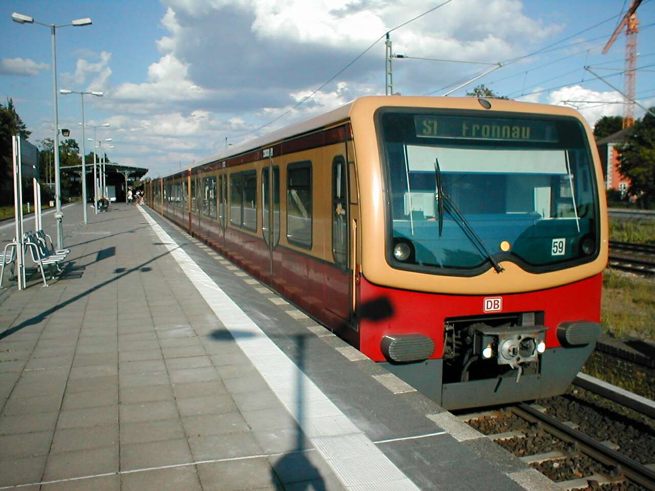 EMU 481 of the Berlin S-Bahn in Griebnitzsee station